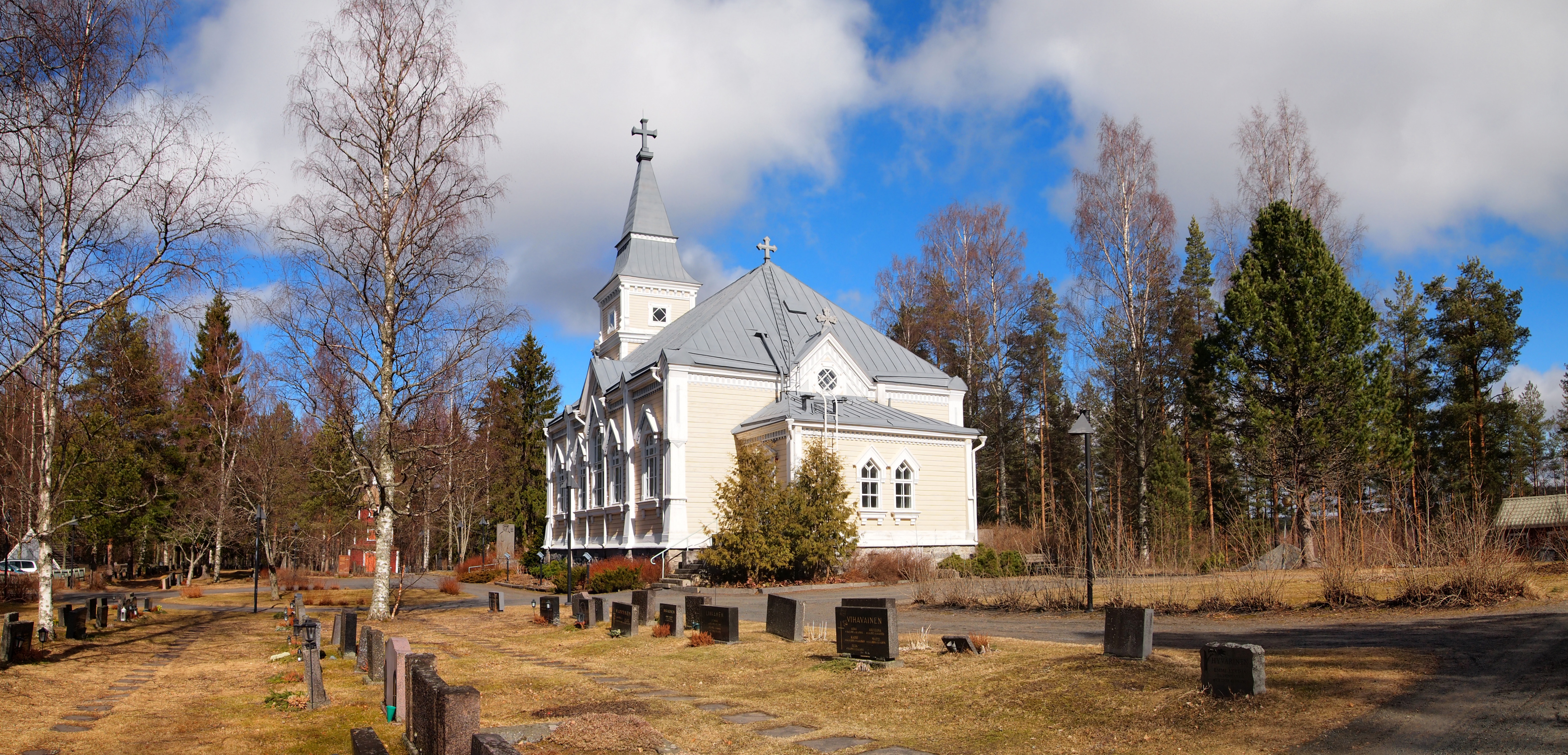 Toivakka Church in Toivakka, Finland.